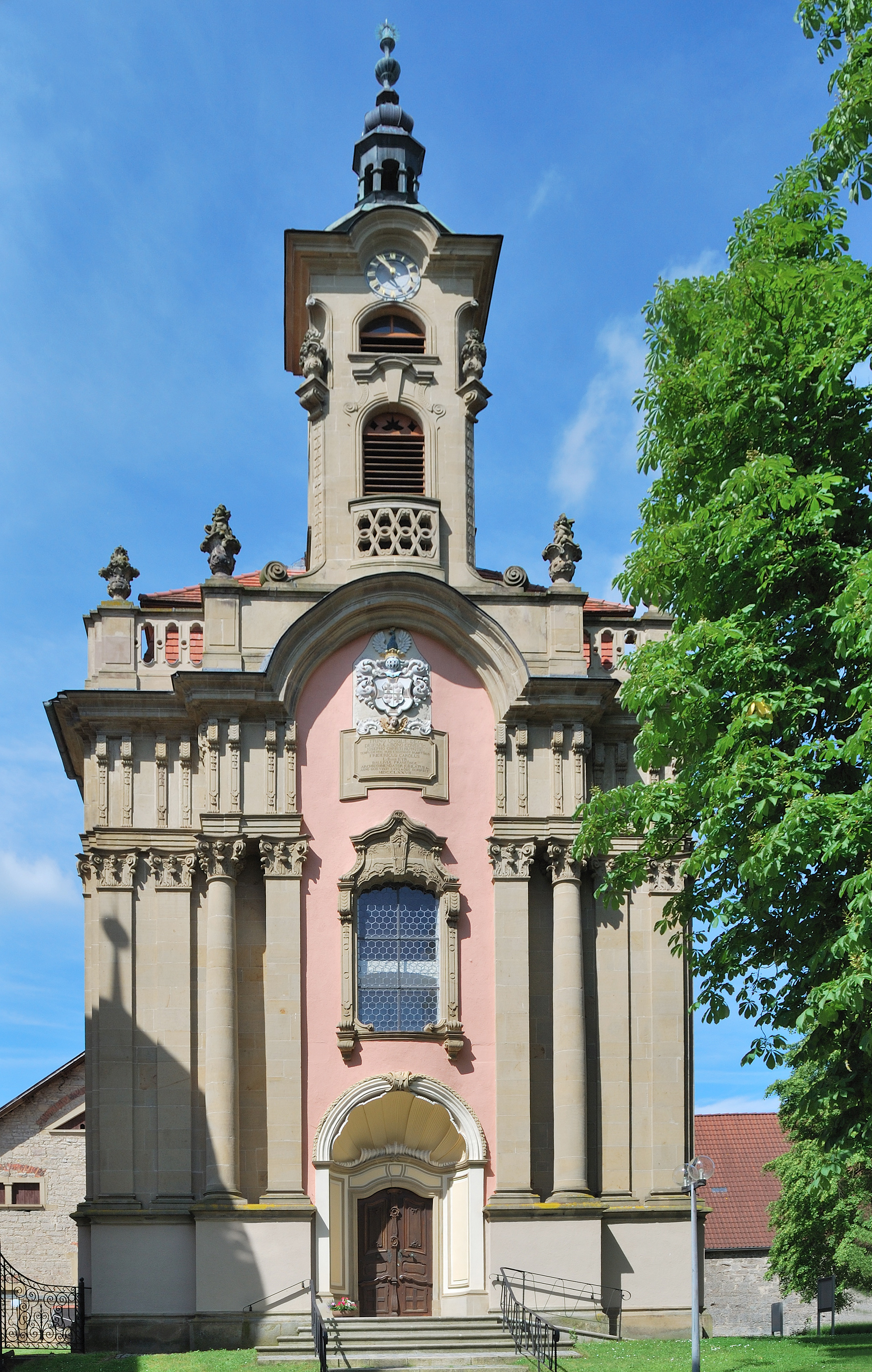 The Holy Trinity Church in Meßbach, Southern Germany.